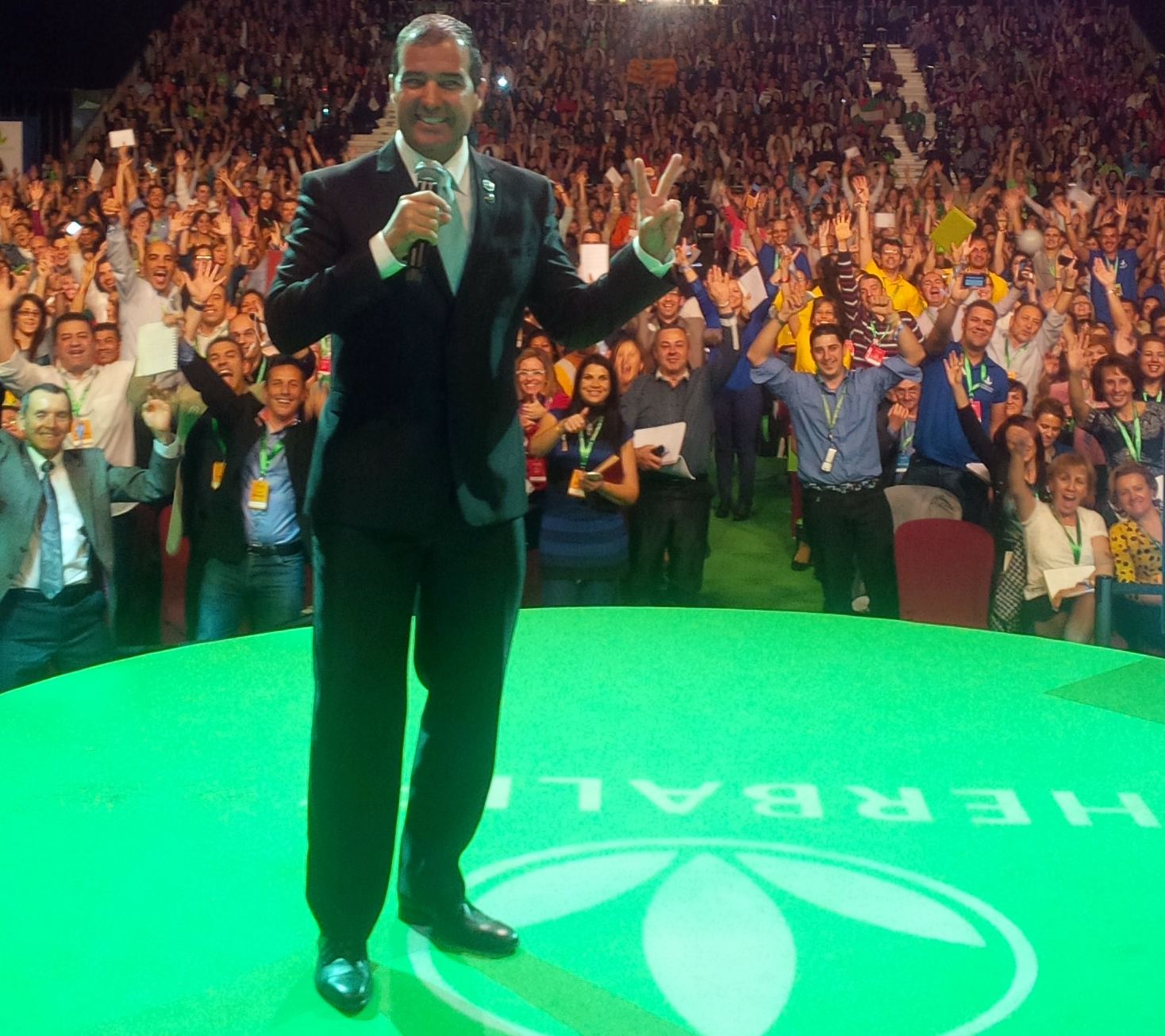 Guillermo Luna live at Herbalife